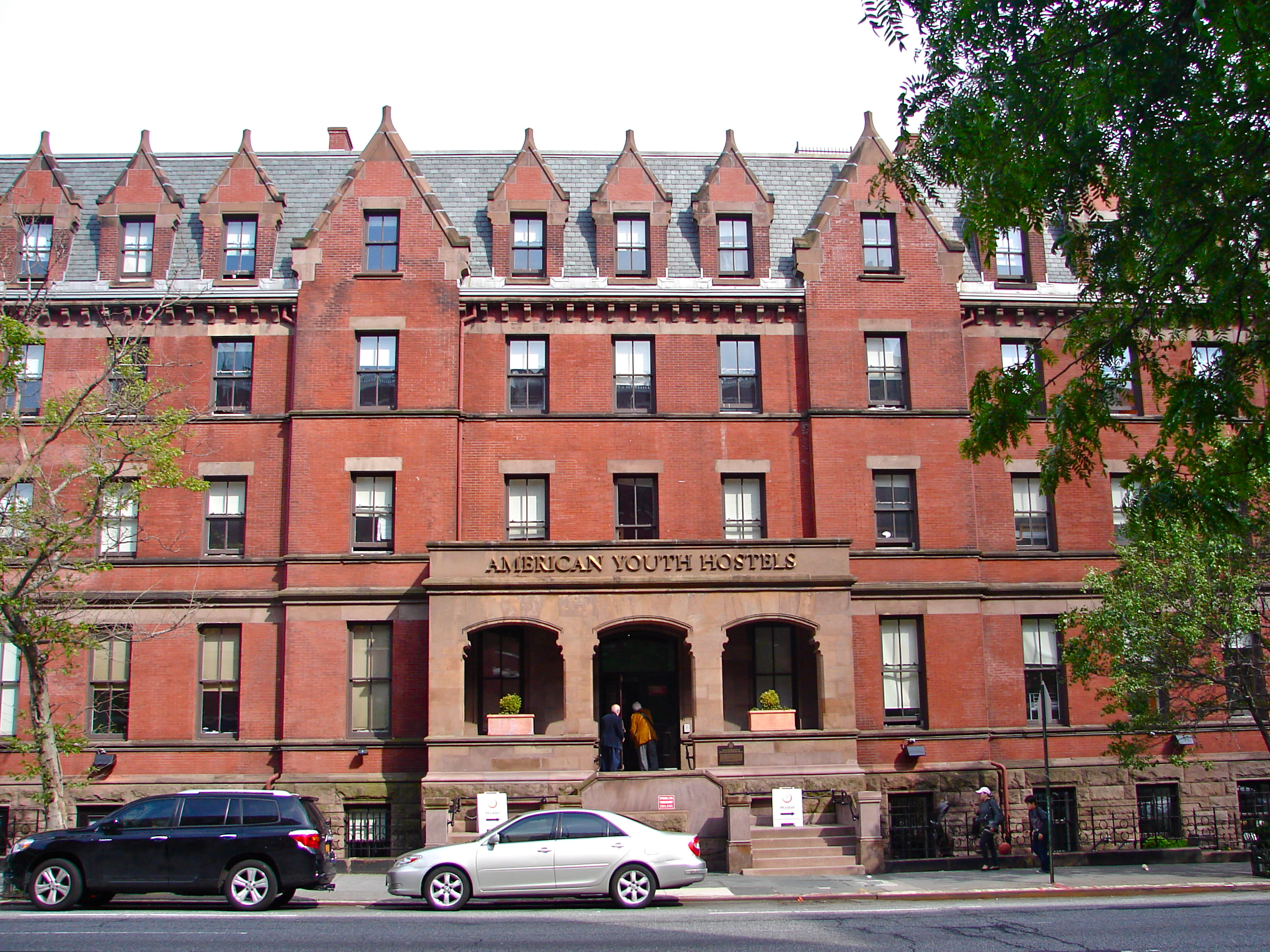 Association Residence Nursing Home on the NRHP since February 20, 1975. At 891 Amsterdam Ave. (between 104th and 103rd) in Manhattan, New York City, New York. Now houses the Hosteling International youth hostel in New York City